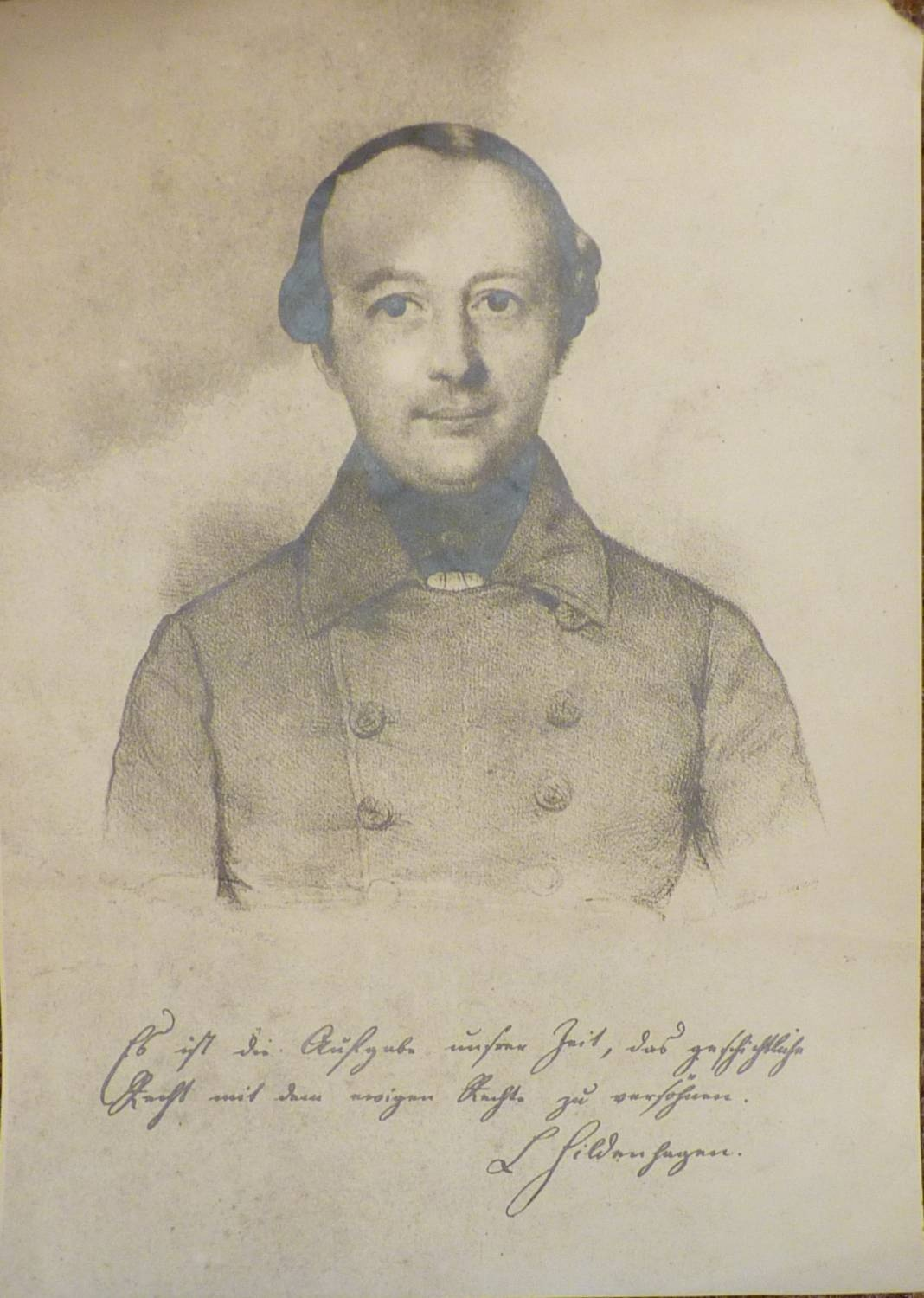 Ludwig Hildenhagen, protestant pastor and politician